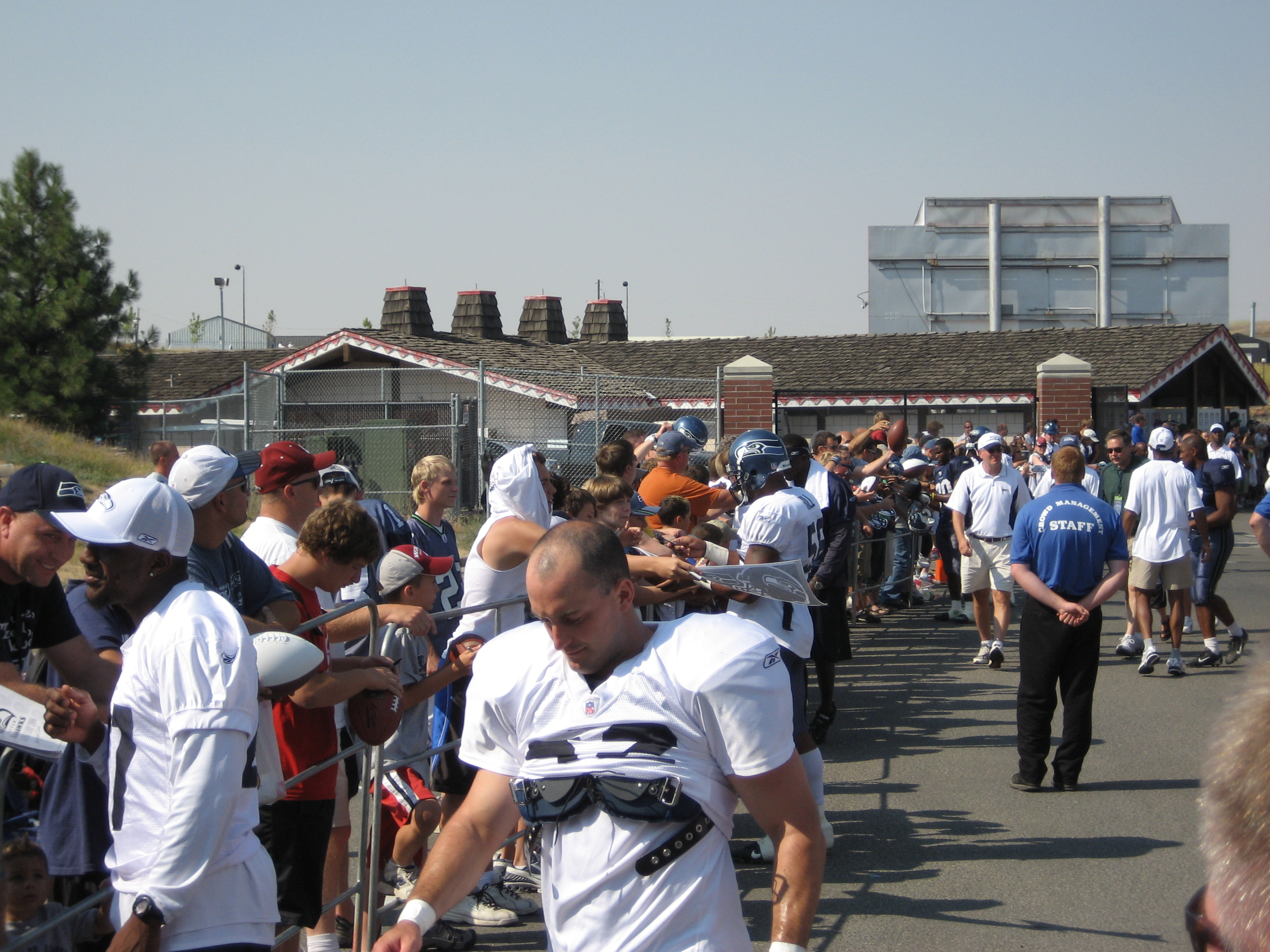 Picture of Seahawks players walking a gauntlet of fans at Eastern Washington University, Cheney Washington, following the team scrimmage. J.P. Darche takes it easy.